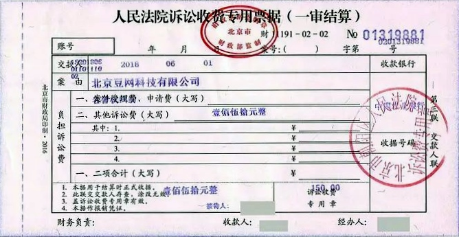 An invoice by Beijing Chaoyang District People's Court, China